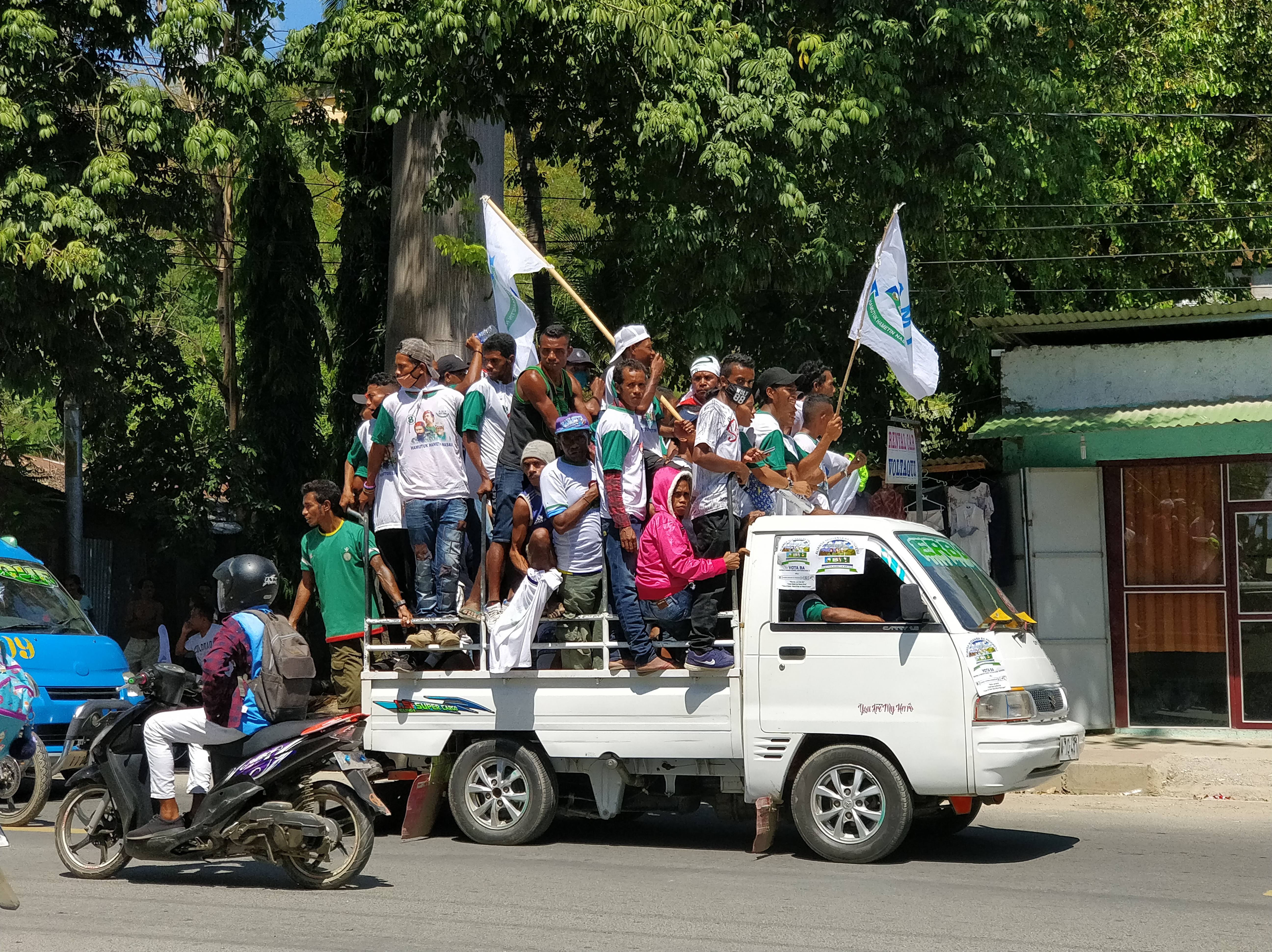 AMP supporters during rally on Balide Avenue, Dili, Timor-Leste